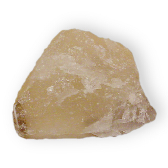 These mineral images are free to use how you wish.